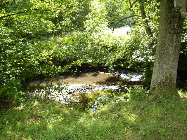 The River Dove near the Daffy Cafe in Farndale